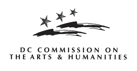 Logo of the D.C. Commission on the Arts and Humanities (DCCAH), an agency of the Government of the District of Columbia